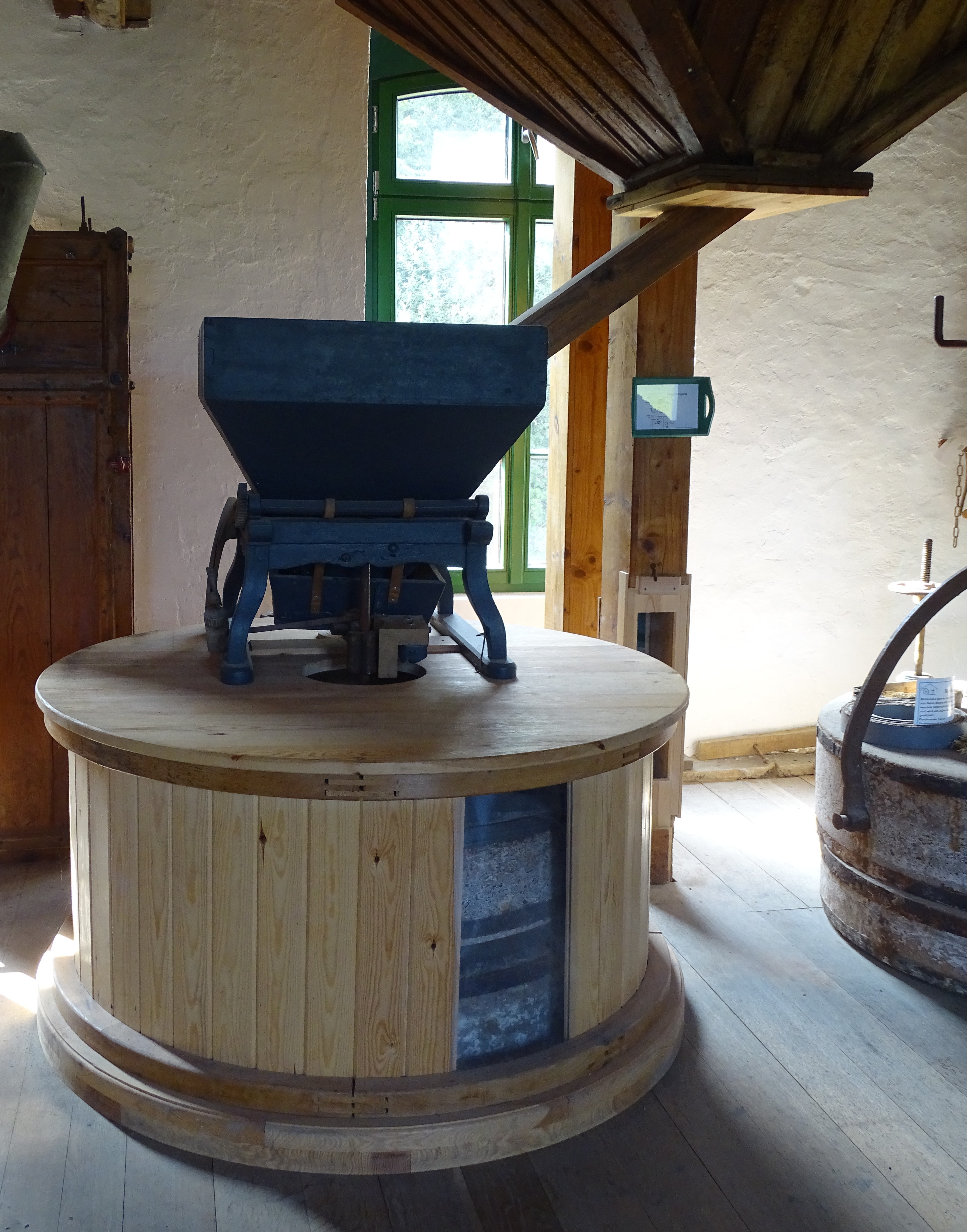 Former mill in Meckenheim (Rhineland): millstones and installation for the supply of cereal.